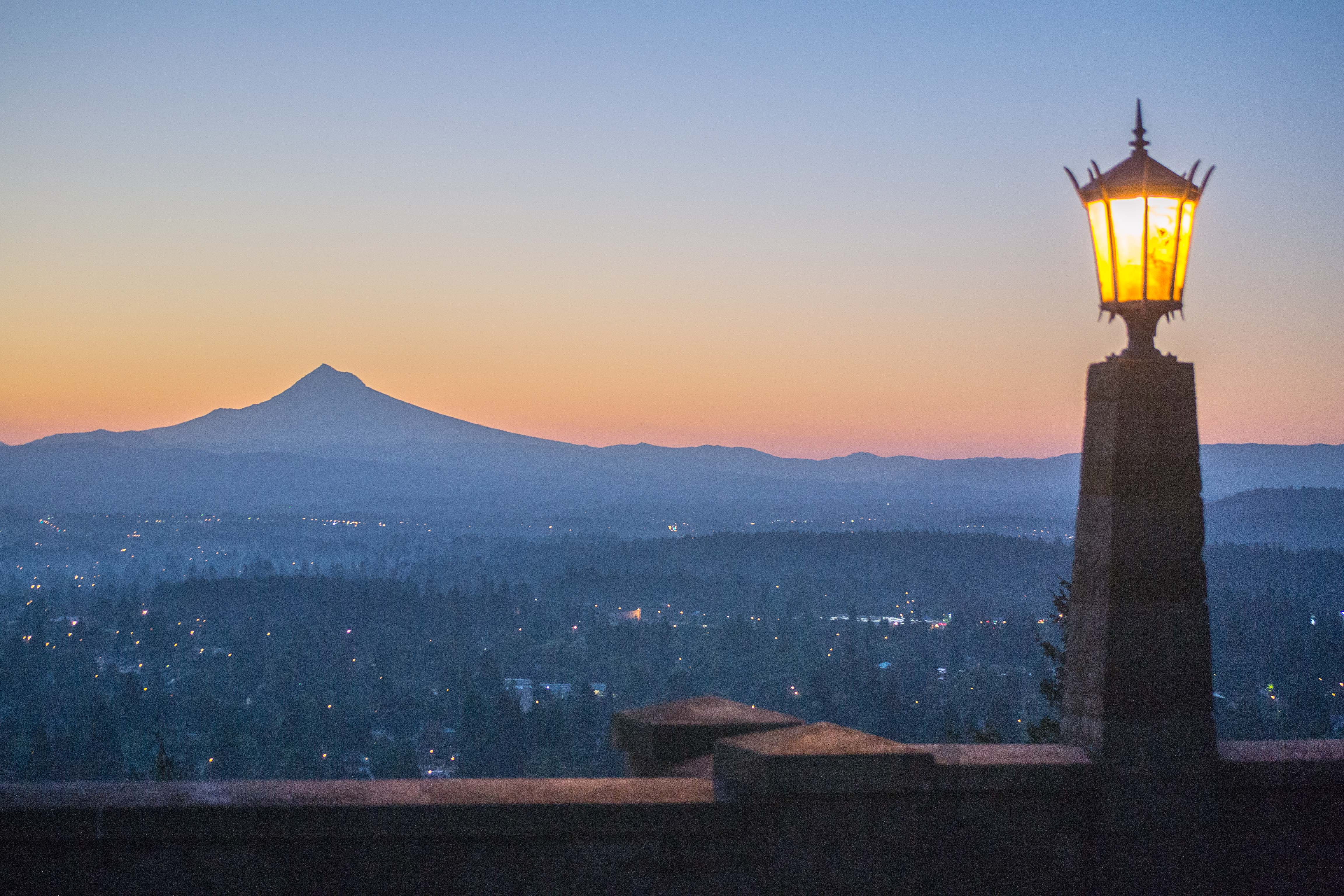 A view of Mount Hood from Rocky Butte